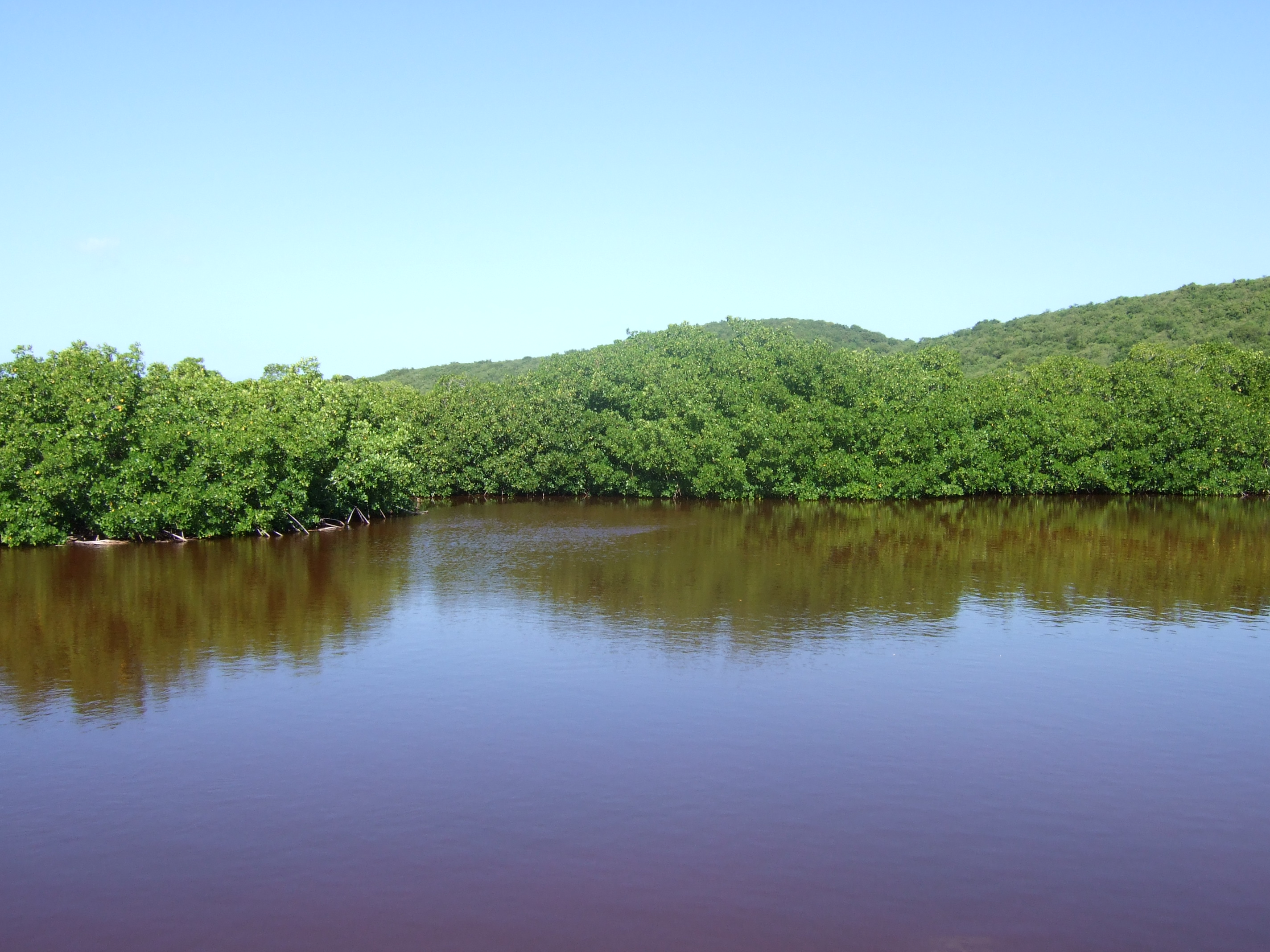 Photo of a red mangrove (Rhizophora mangle) forest in the Cabezas de San Juan Natural Reserve, Fajardo, Puerto Rico.